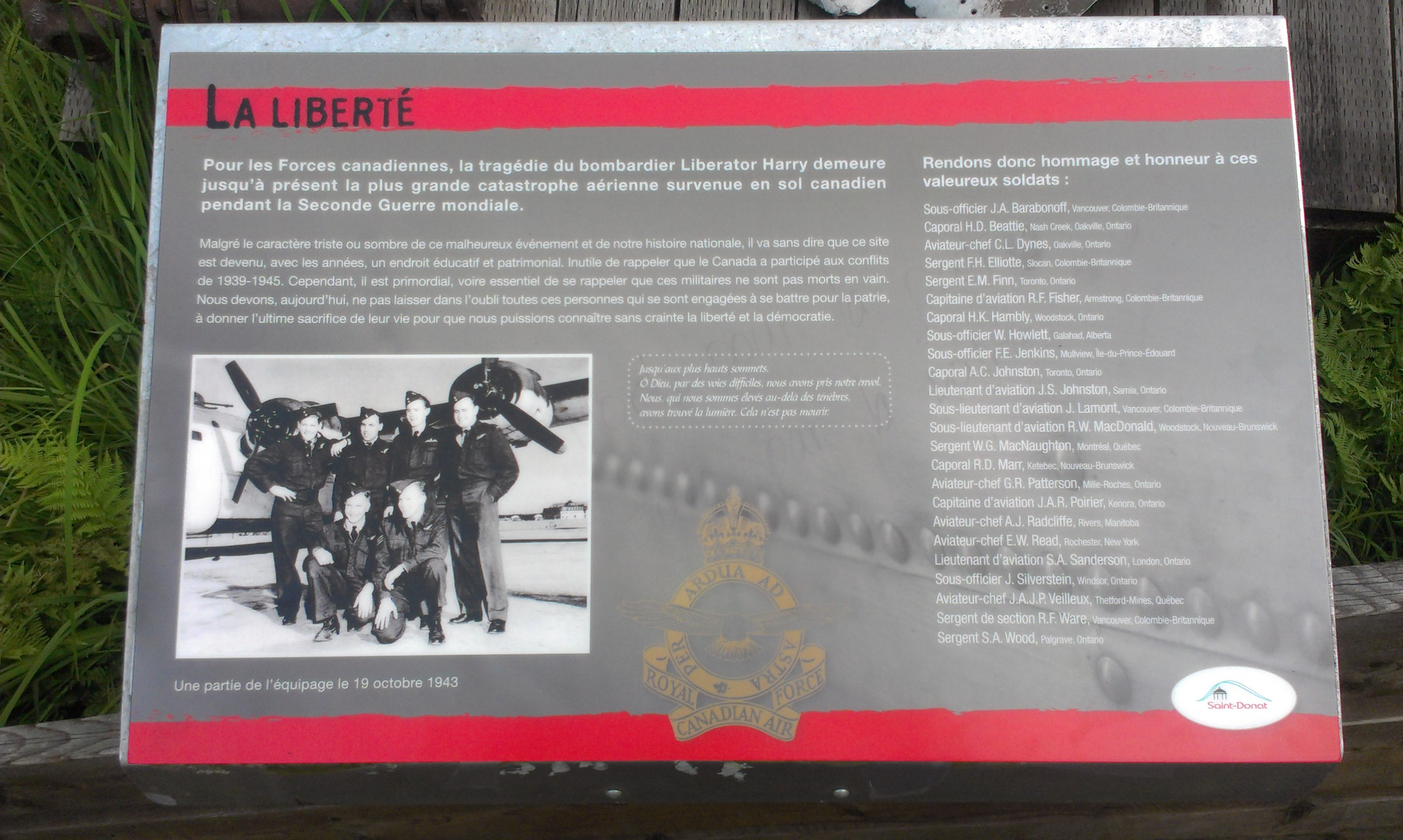 An information plaque at the 1943 Saint-Donat B-24D Liberator crash site.